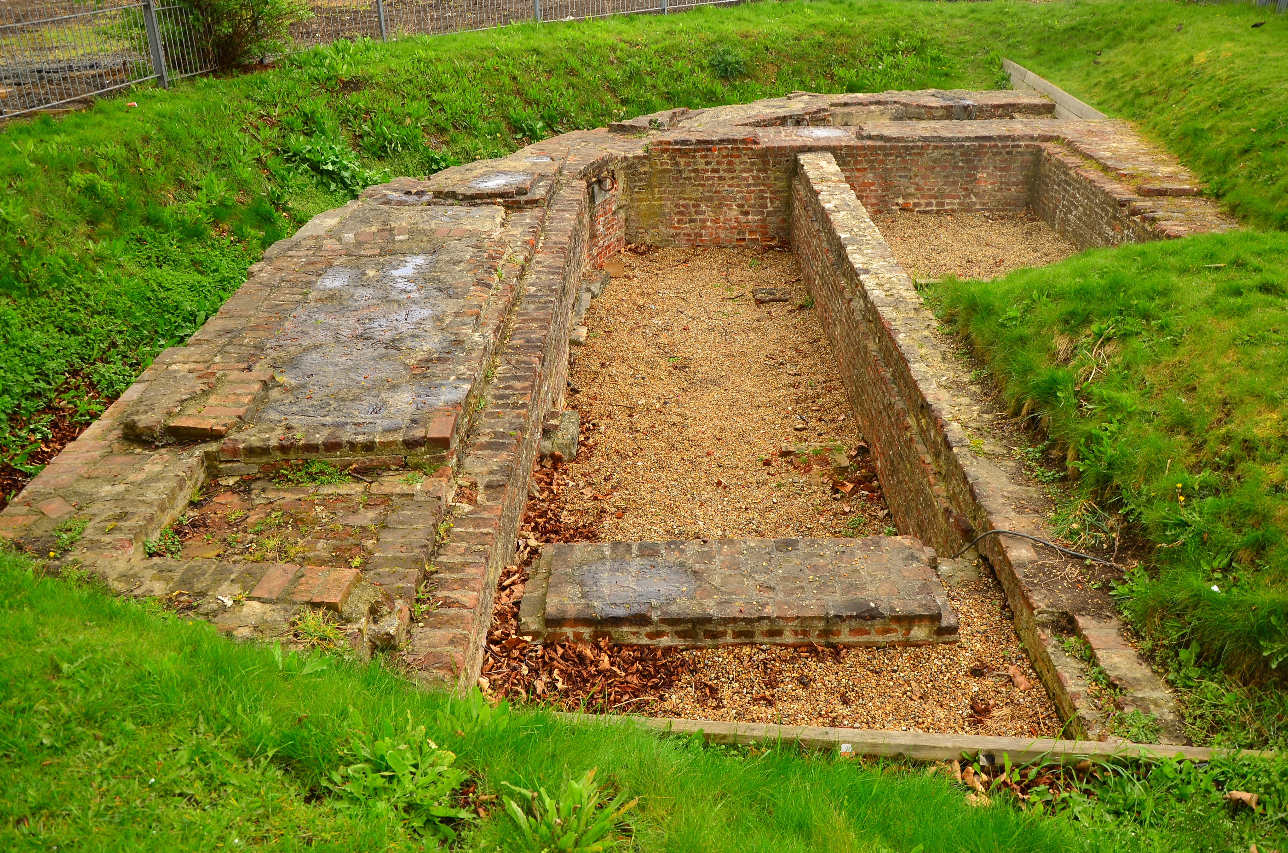 Exposed foundations of the Gravesend Blockhouse, one of the minor Device Forts of Henry VIII. 1540s.